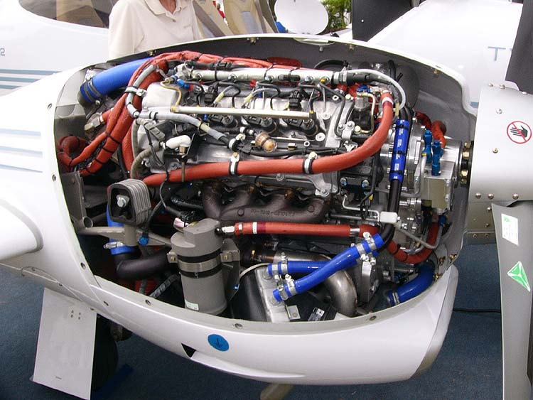 Thielert Centurion 1.7 diesel engine on a Diamond DA42 Twin Star at Sun 'n Fun 2006, Lakeland, Florida